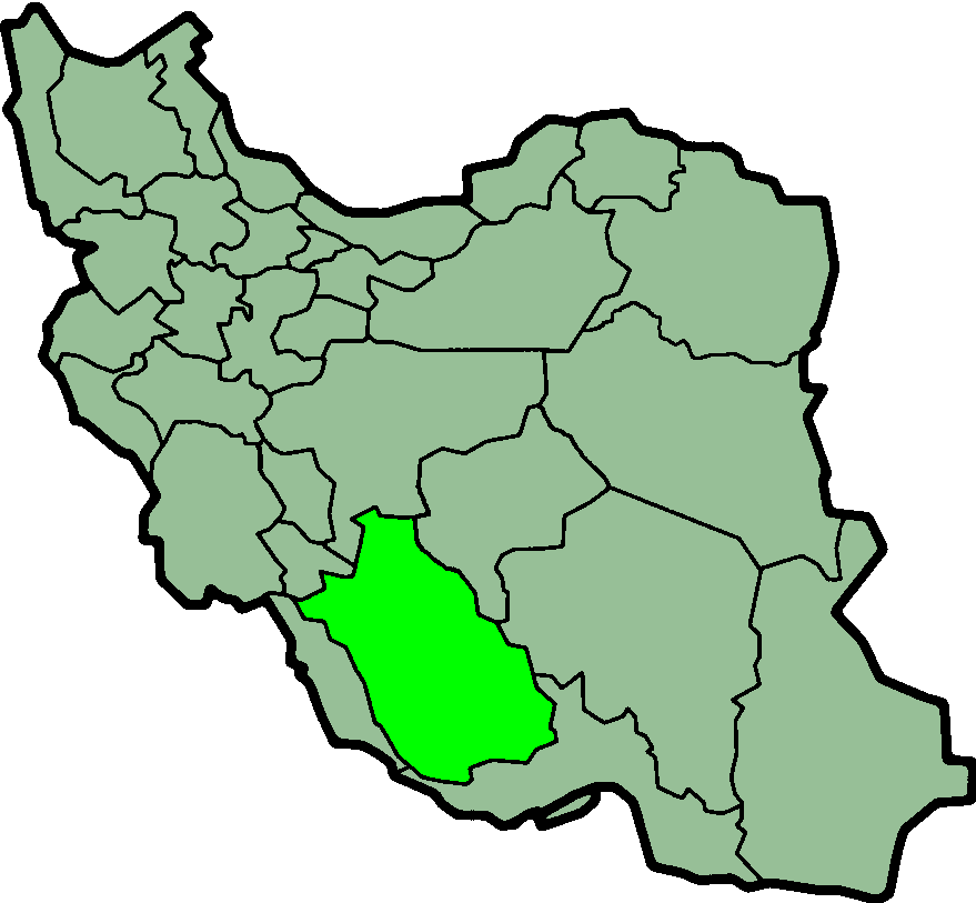 Province of Fars, Iran